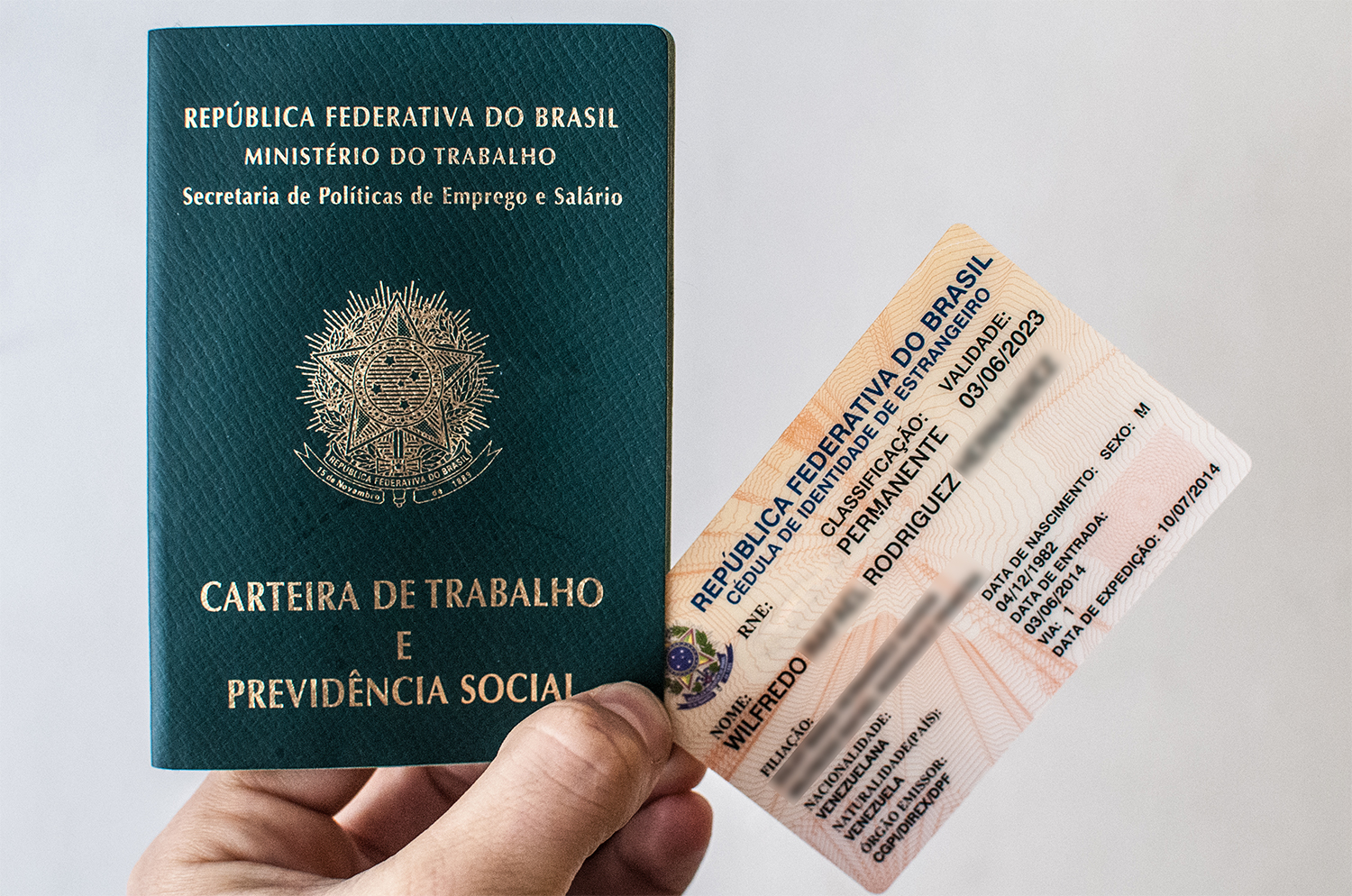 Documents required to work in Brazil